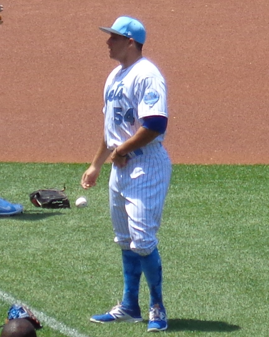 New York Mets infielder T. J. Rivera warming up prior to the Mets and Nationals game at Citi Field on Father's Day, June 18, 2017.